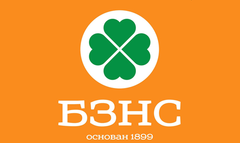 Flag of the Bulgarian Agrarian People's Union.